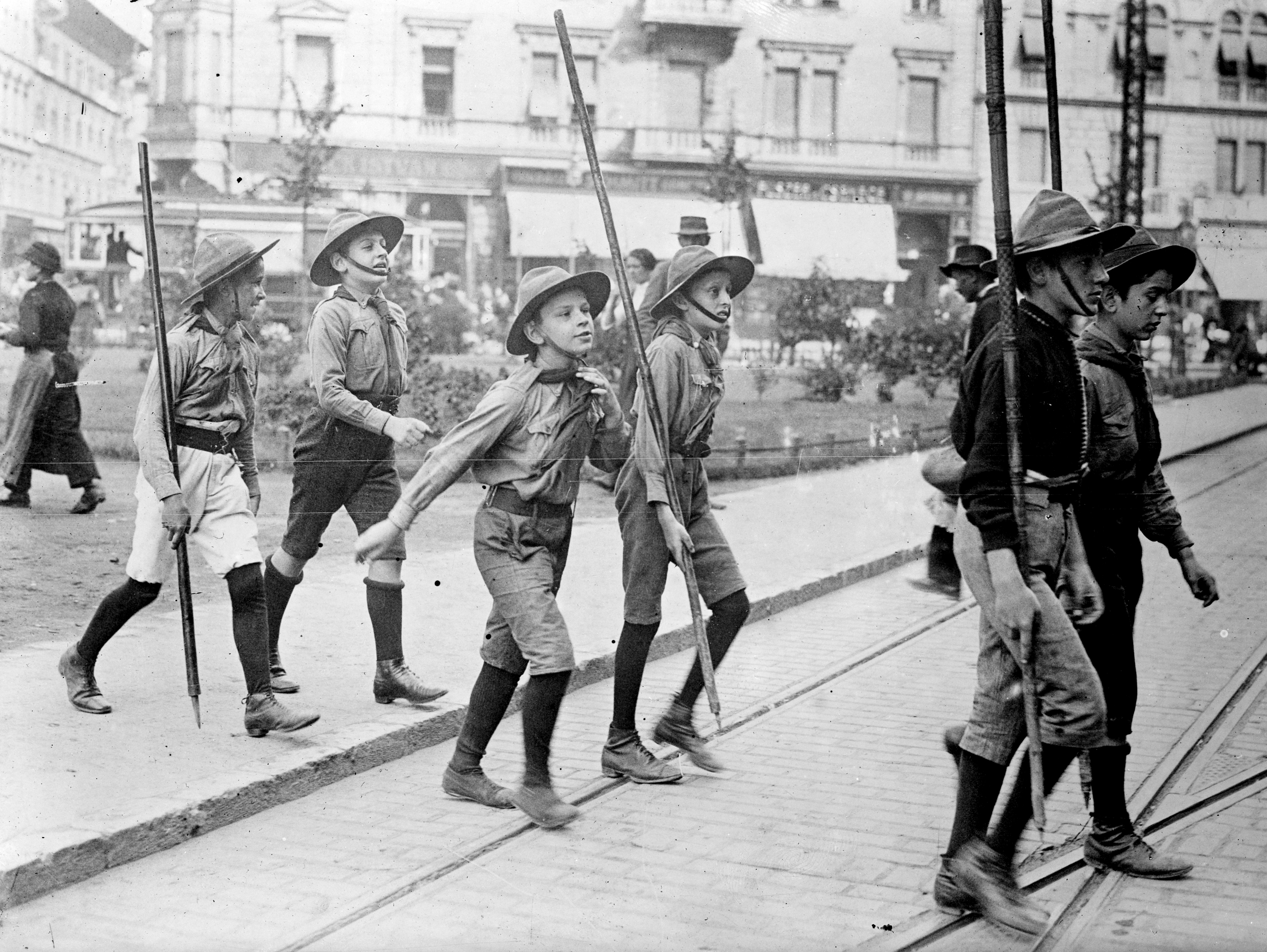 Title: Buda - Pesth -- Boy Scouts Abstract/medium: 1 negative : glass ; 5 x 7 in. or smaller.